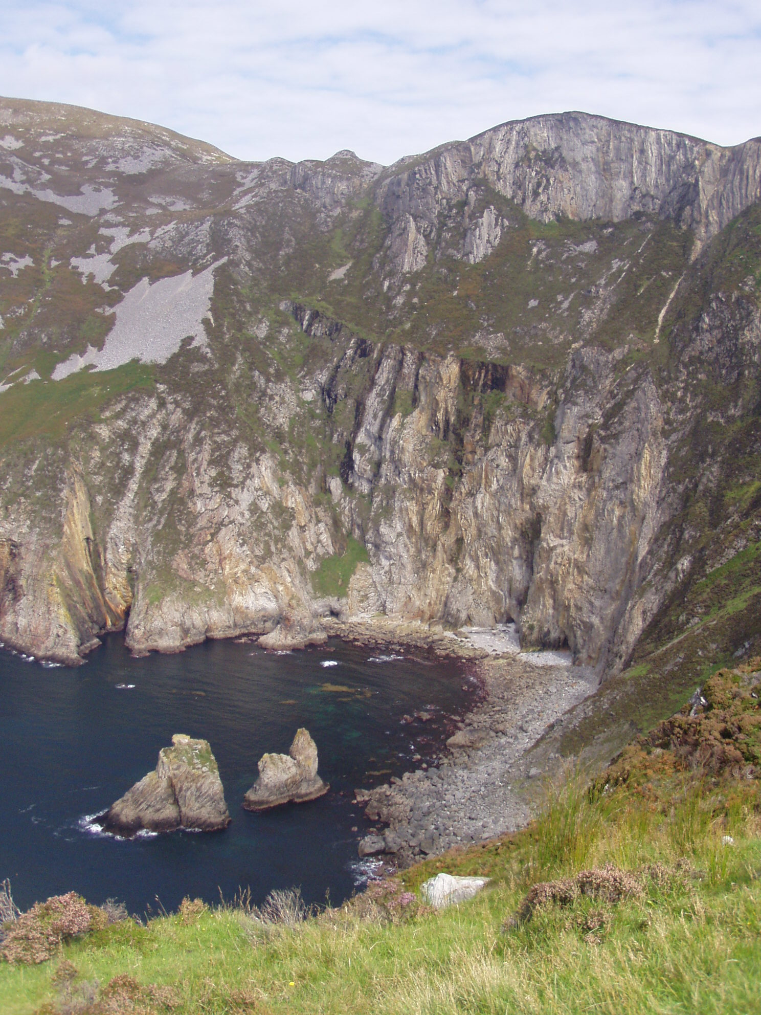 Cliff of Slieve League in the Ireland, CO. Donegal.